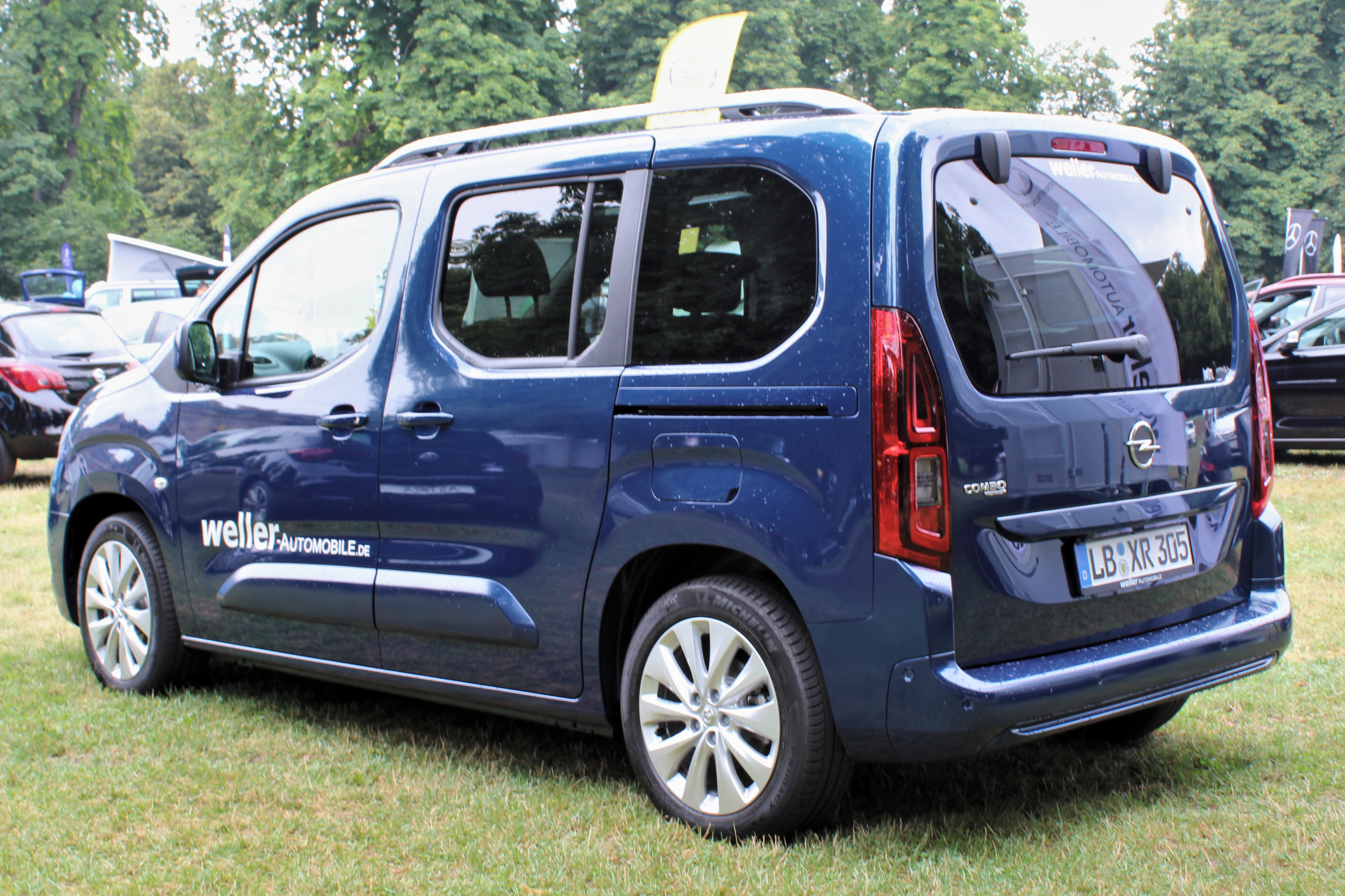 Opel Combo E at Schloss Monrepos 2019